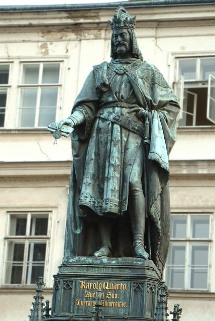 Statue of Charles IV., Holy Roman Emperor, in Křižovnické Square. A monument placed nearby Charles Bridge, Prague in 1848 to commemorate the 500th anniversary of establishing the University of Prague by Charles IV (women statues around the pedestal symbolize faculties of the university). It is an iron statue by Arnost Händel from Dresden.